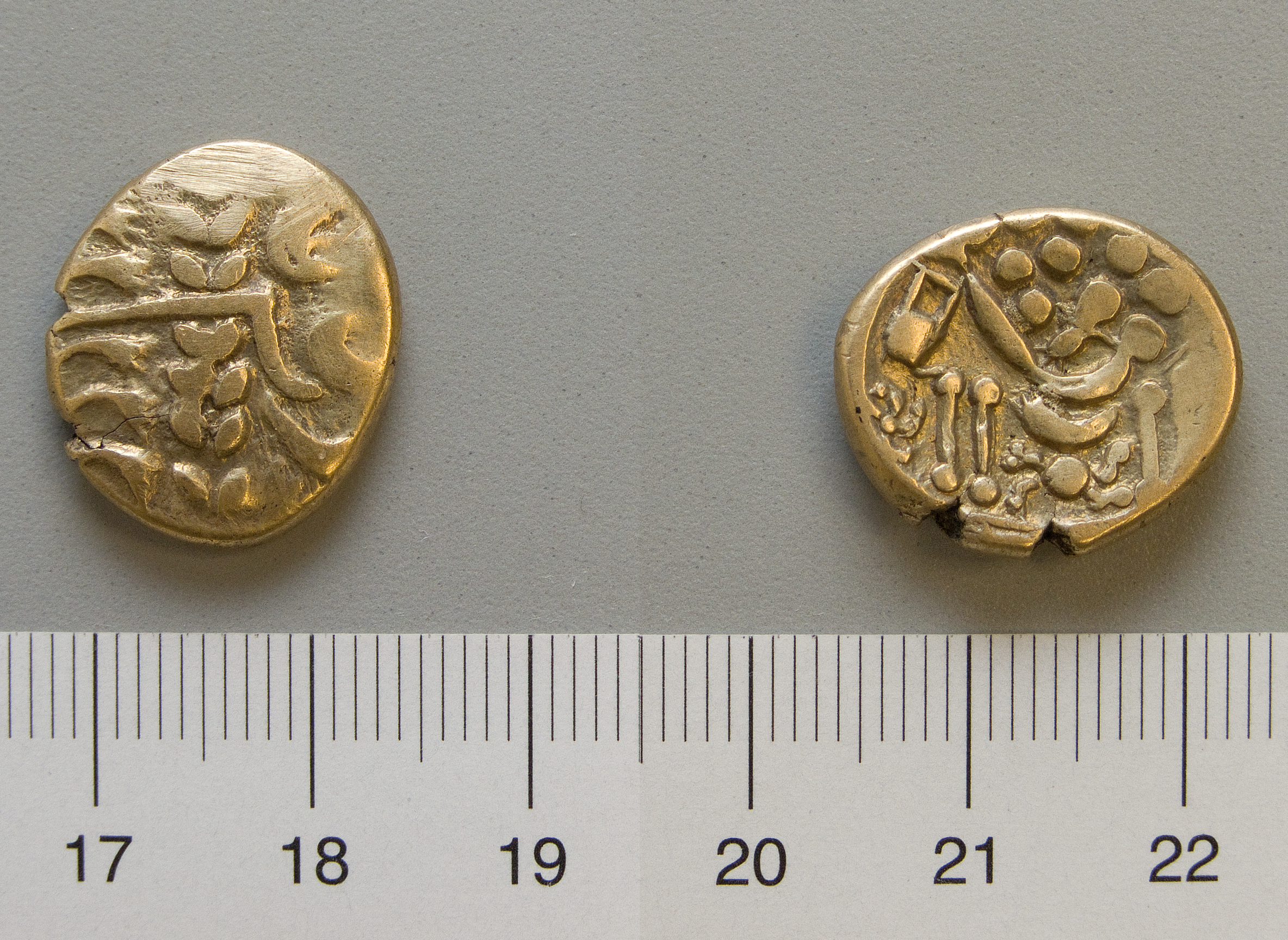 British A stater. Also known as Westerham and Ingoldisthorpe stater and Westerham stater